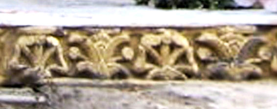 Diamond Throne Vajrasana front frieze, Bodh Gaya